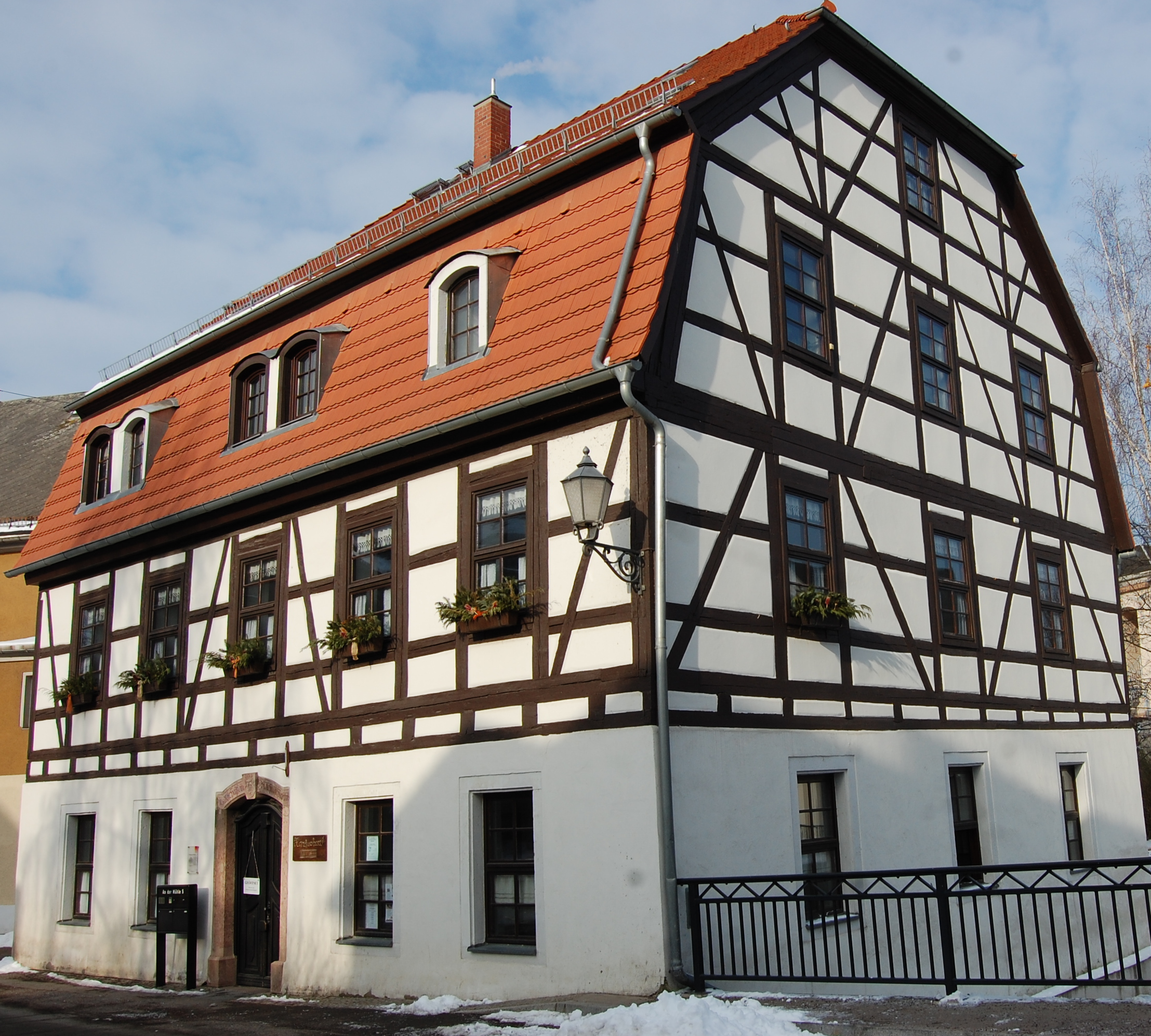 Guild house of the clothier, Hainichen (Saxony/Germany)